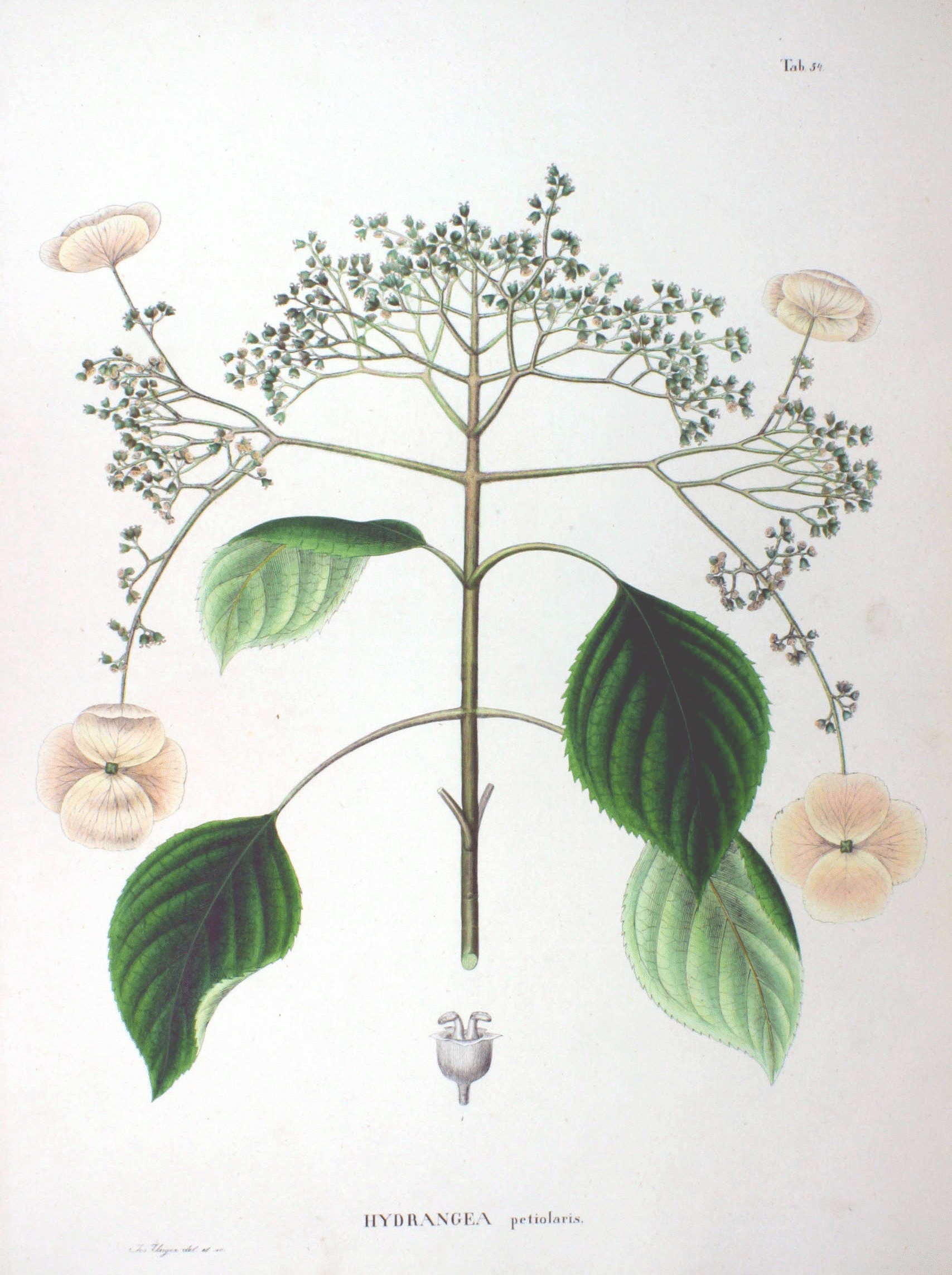 Plate from 1870 book of northeast Asian Hydrangea petiolaris — (synonym: Hydrangea anomala subsp. petiolaris). Blossom and foliage close-up view.